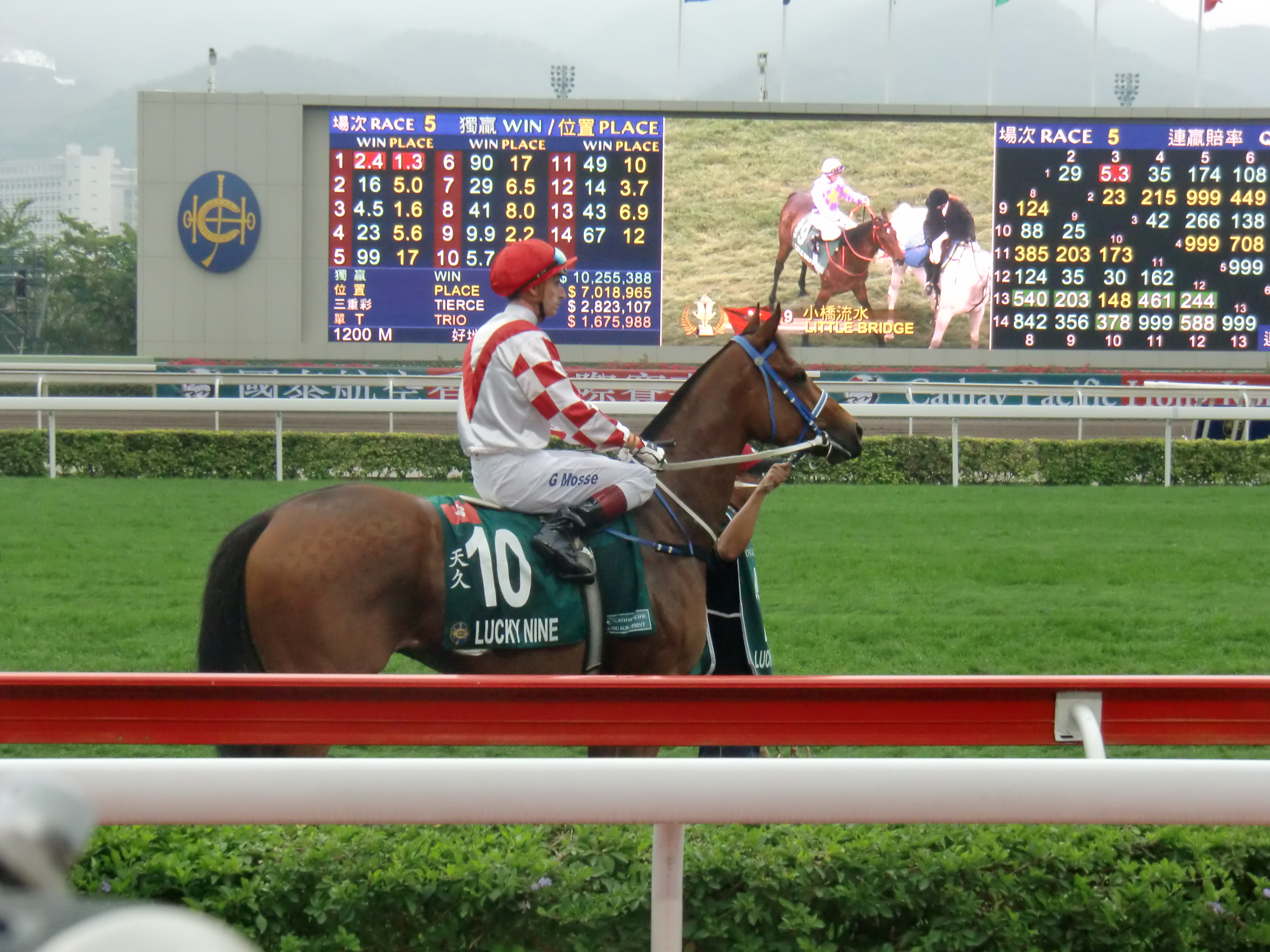 Lucky Nine 中文（香港）: 天久